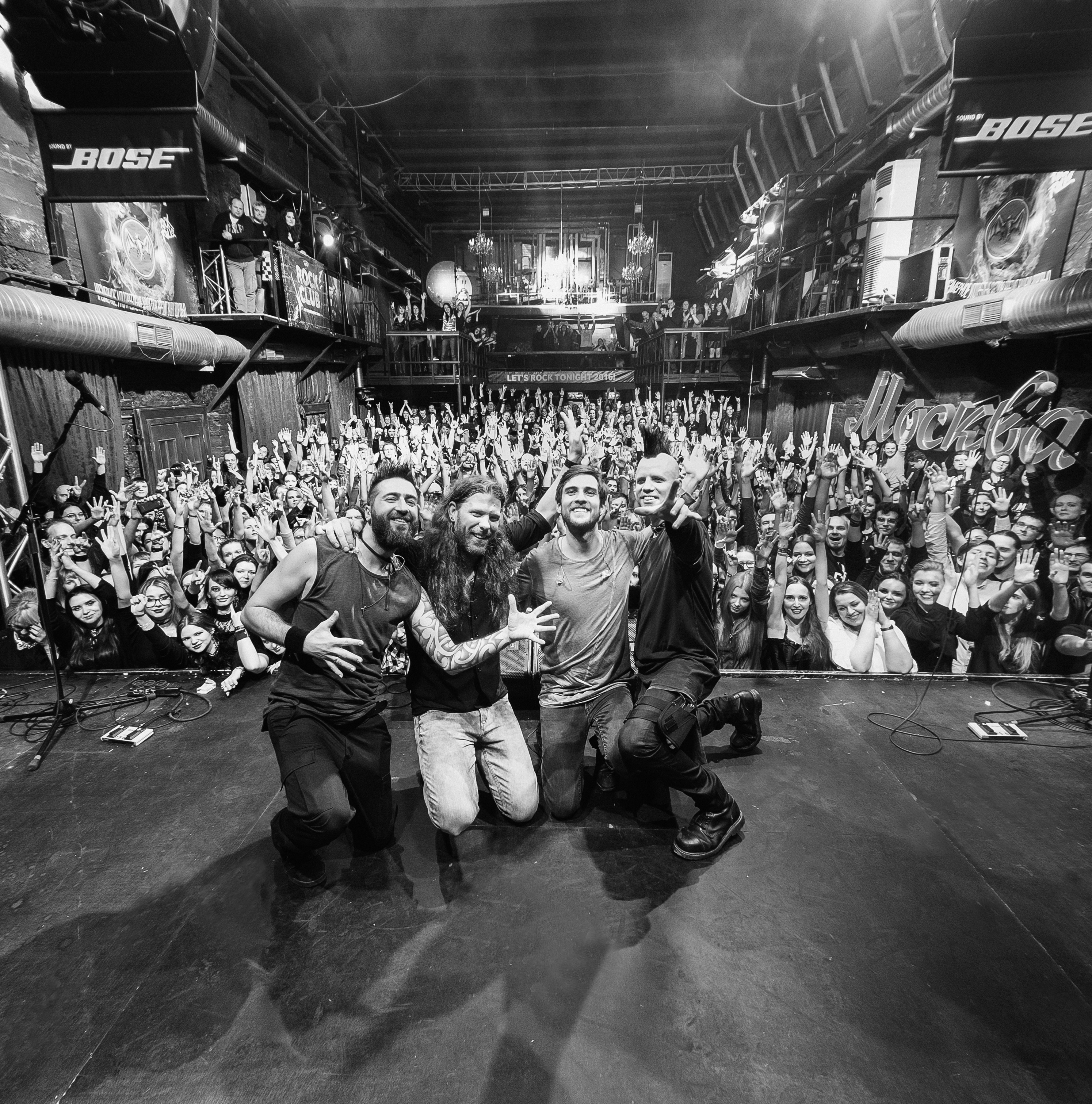 Diary of Dreams Russian Tour 2016. Moscow, Moscow club. Photo by Ekaterina Yakyamseva.